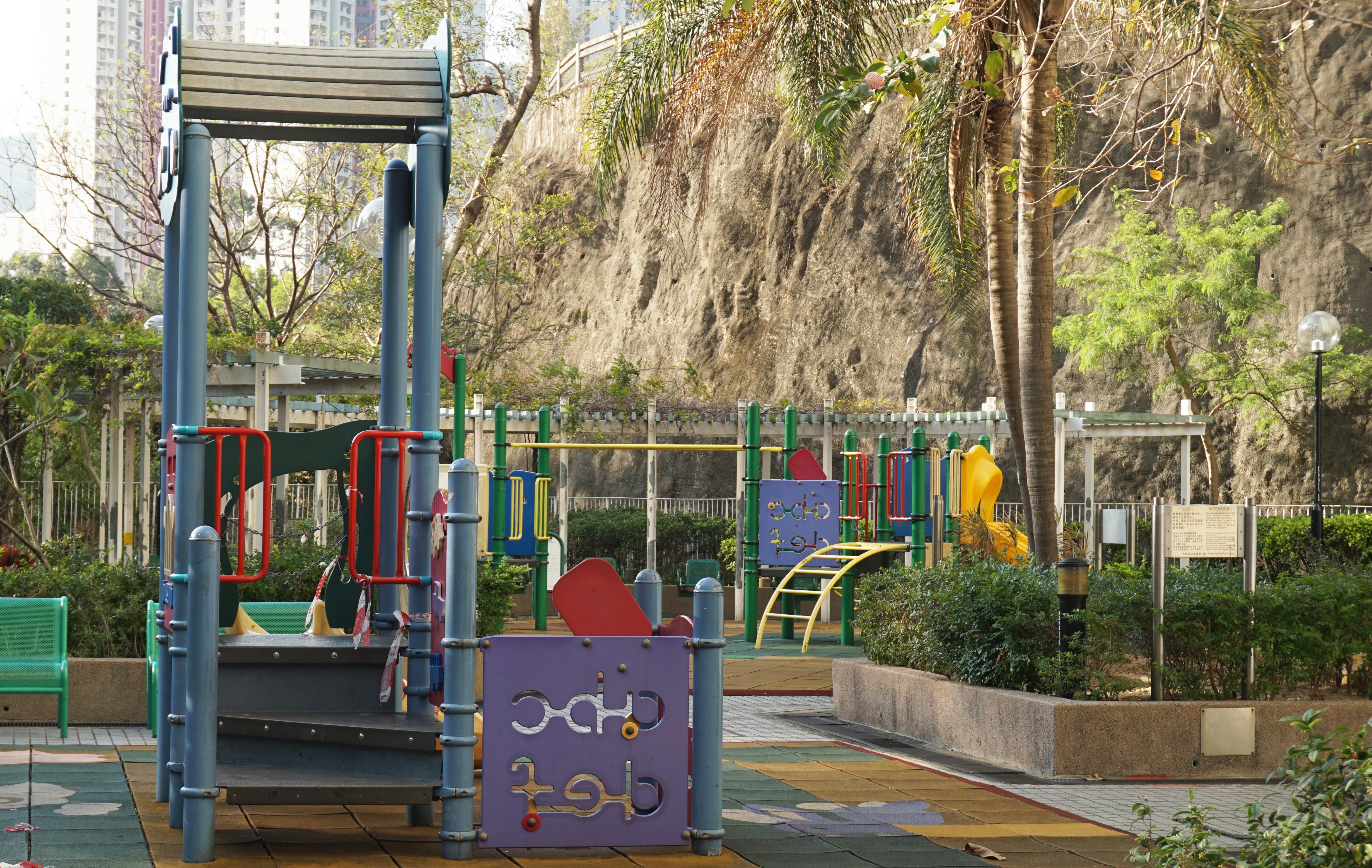 Shek Yam East Estate in Shek Yam, Hong Kong.